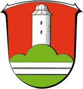 Coat of Arms of Neuenstein